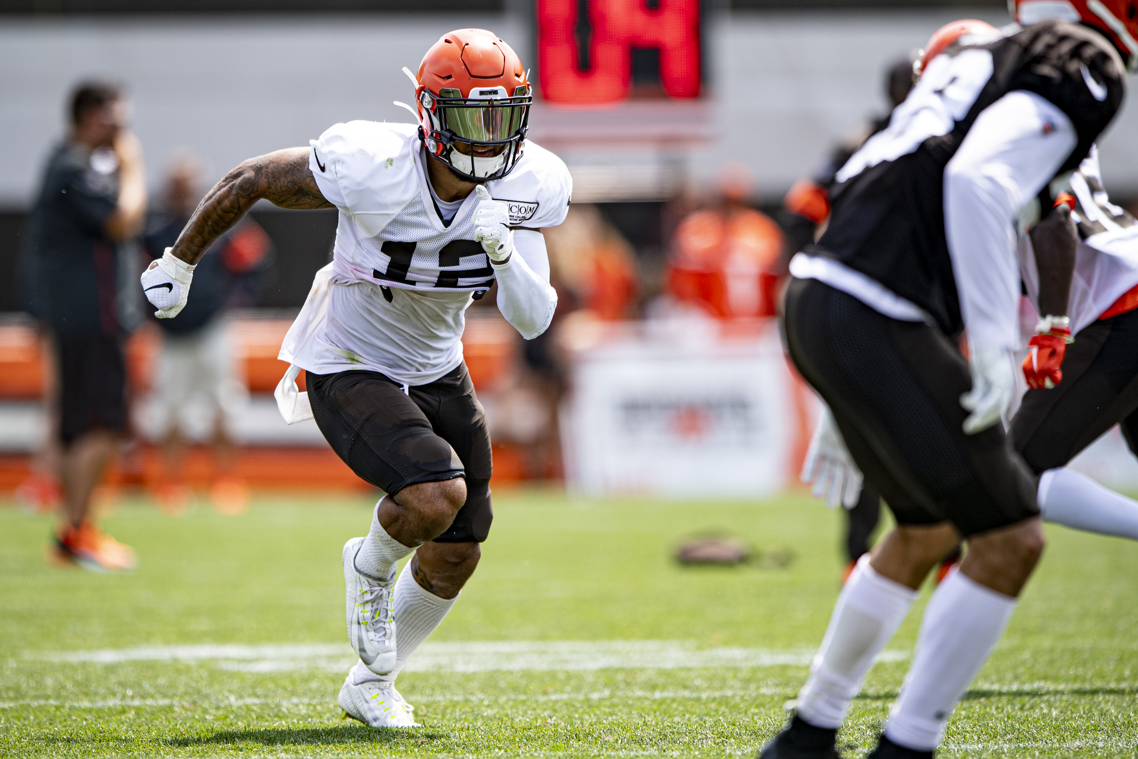 Blake Jackson running a route